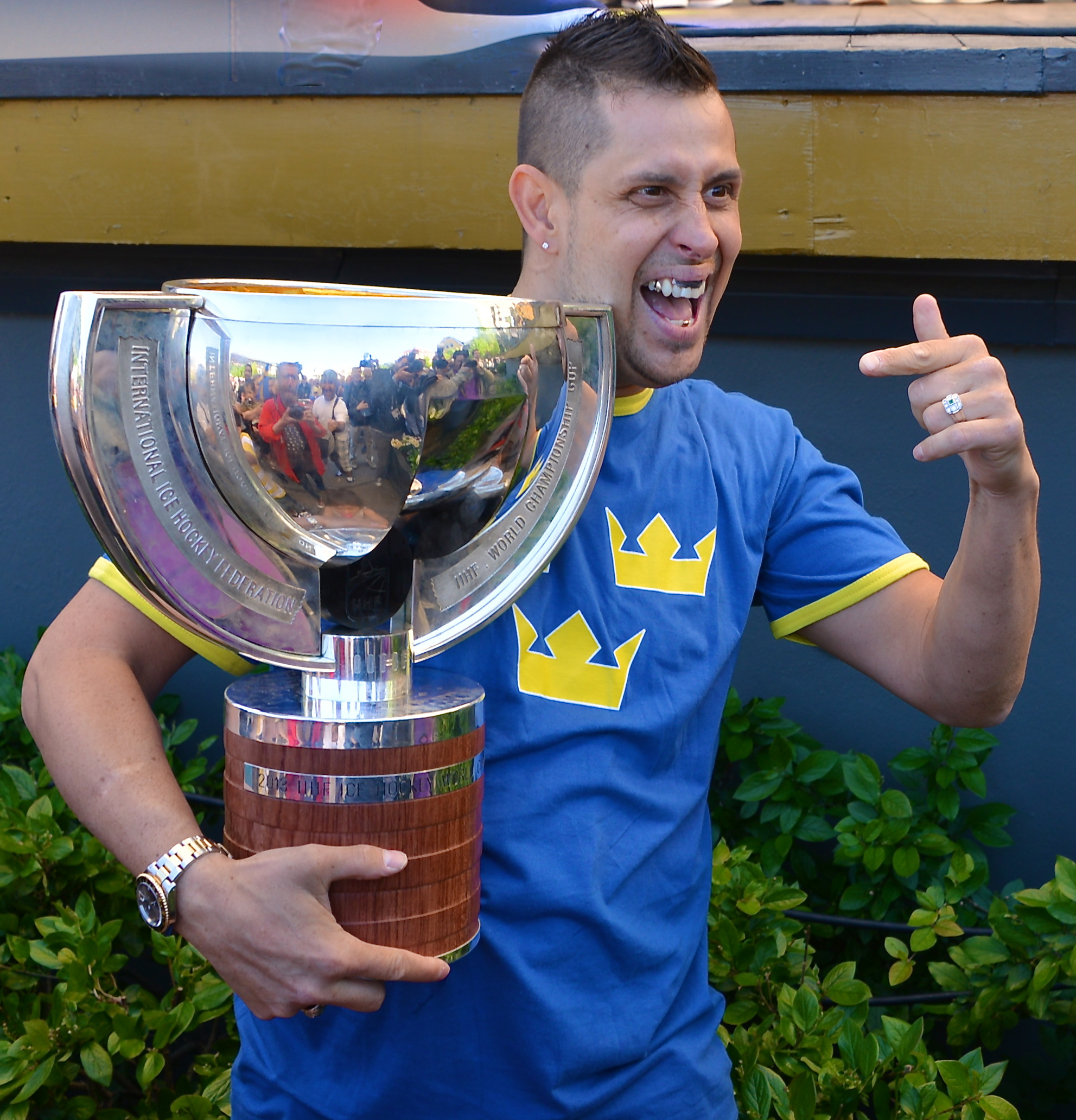 Dogge Doggelito lifts the World Cup trophy in Kungsträdgården in Stockholm on May 20th and celebrates the victory of the IIHF World Championship 2013.